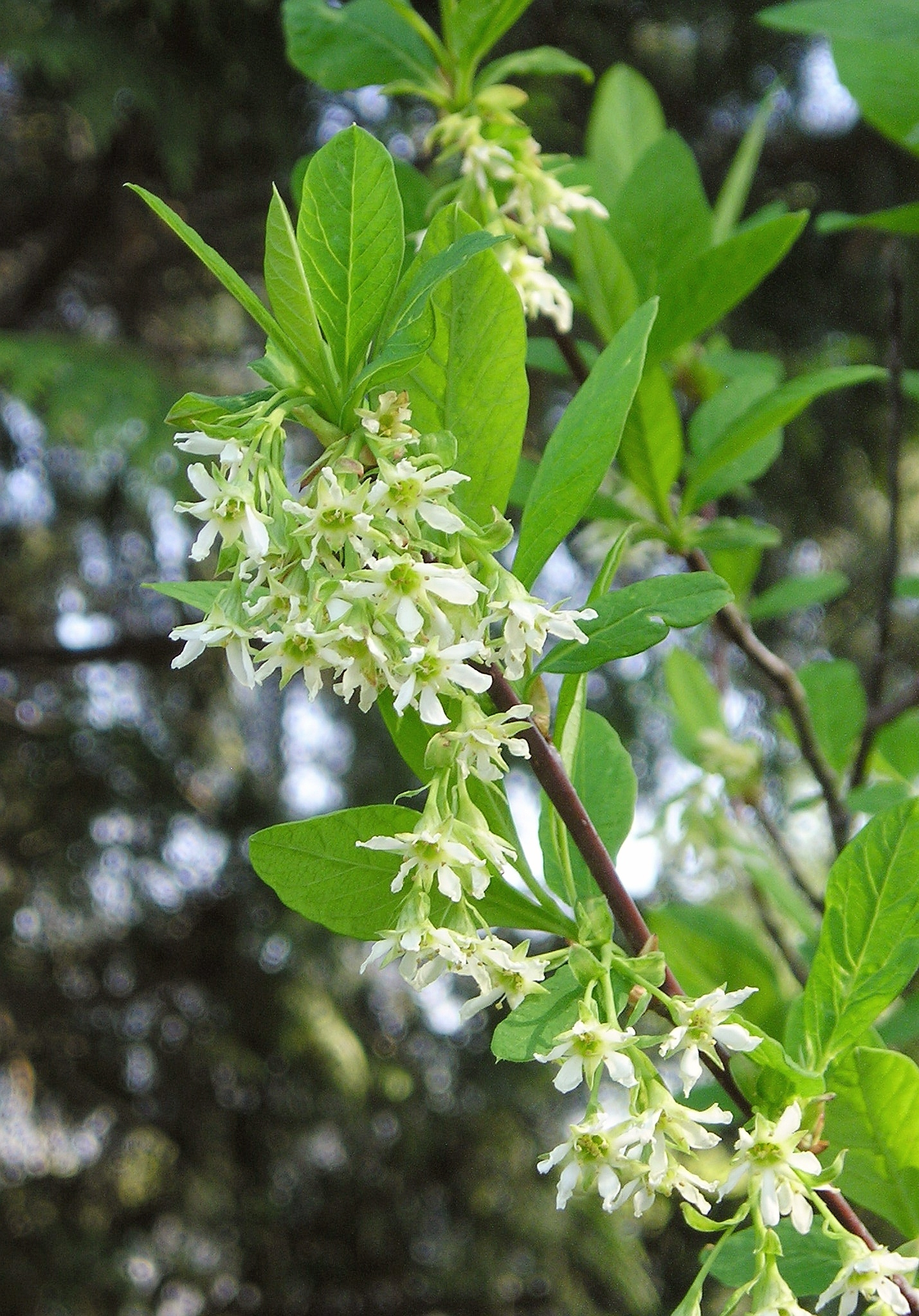 Oregonpflaume (Oemleria cerasiformis) Botanischer Garten TU Dresden, April 2009 Creative Commons Licence BY 2.0 Quellenangabe / Credit: Photo by Maja Dumat